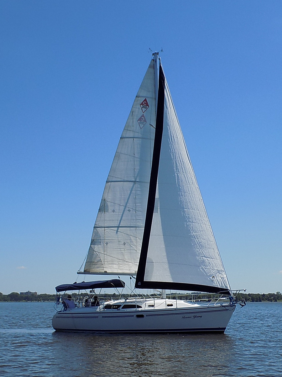 A Catalina 310 sailboat named Forever Young.